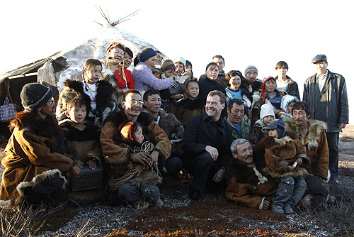 CHUKOTKA. A visit to the reindeer herding brigade.